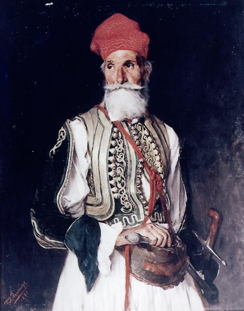 Christos Kapsalis (1751-1826) - Greek Fighter of the 1821 Revolution Χρήστος Καψάλης